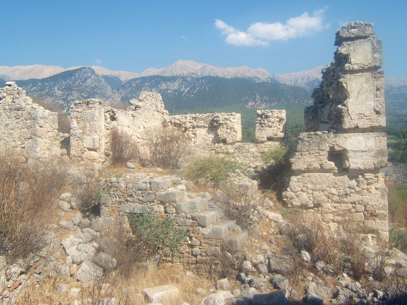 Ruins of the ancient city of Tlos, Turkey (in this picture: remains of the Ottoman castle)